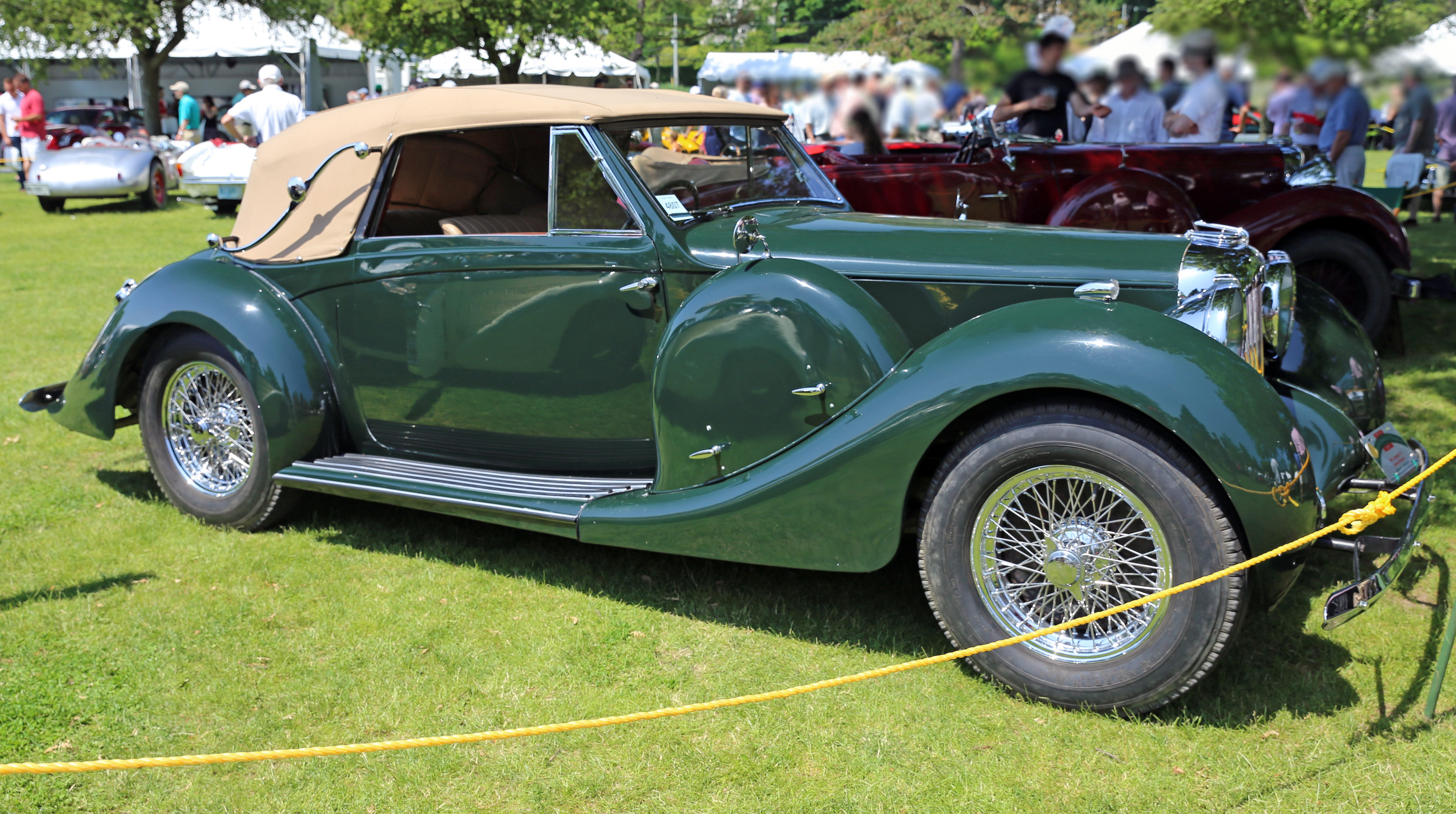 1940 Lagonda V12 Drophead Coupé at the 2013 Greenwich Concours d'Elegance.